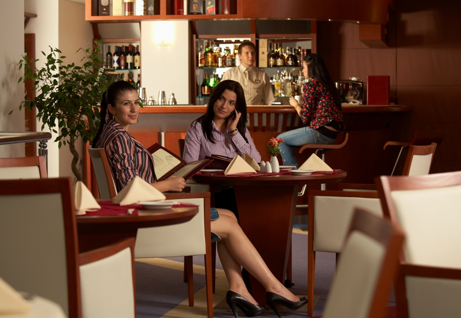 restaurant